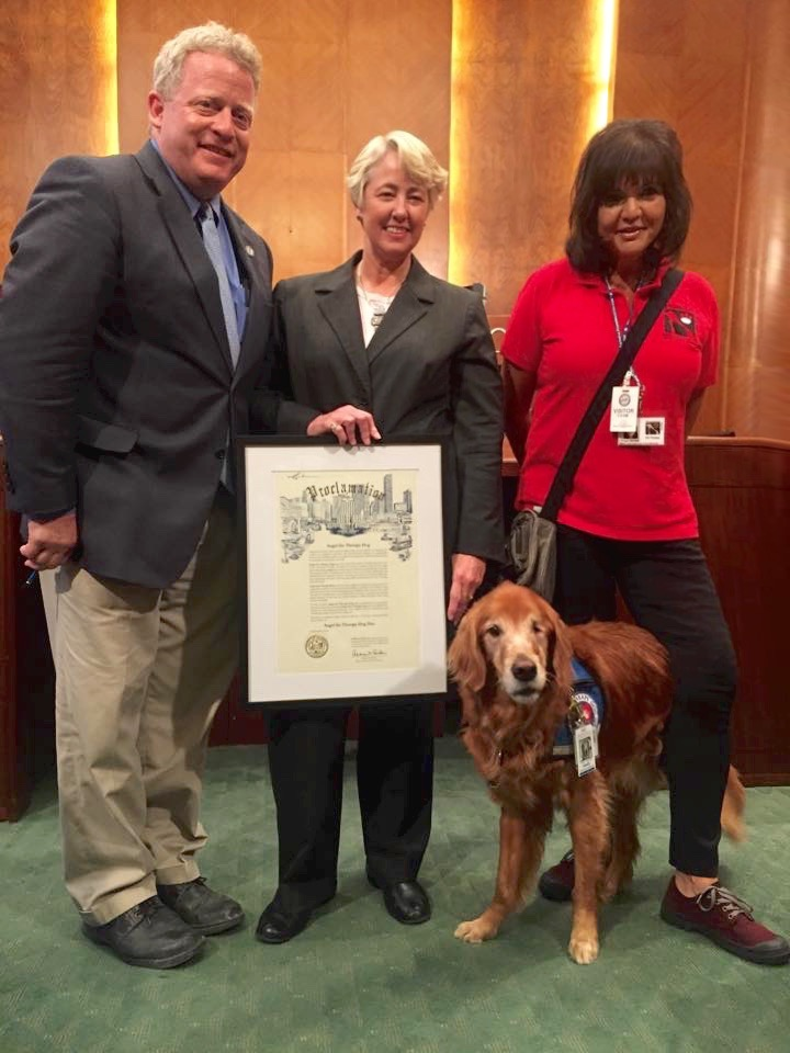 Angel, the Official Therapy Dog of Houston, with City Councilman David Robinson, Mayor Annise Parker and owner Trish Herrera